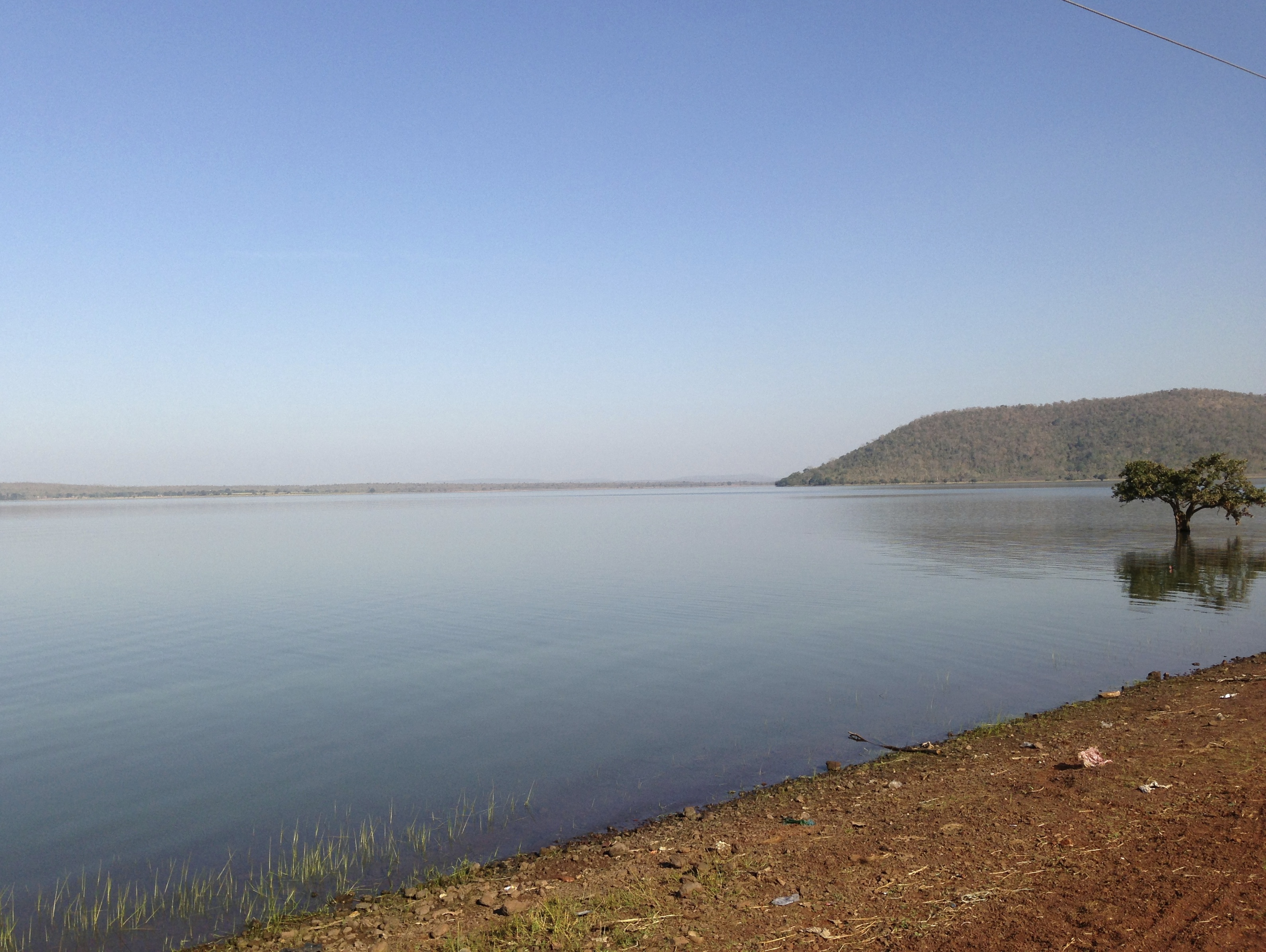 Pakhal lake - adorable